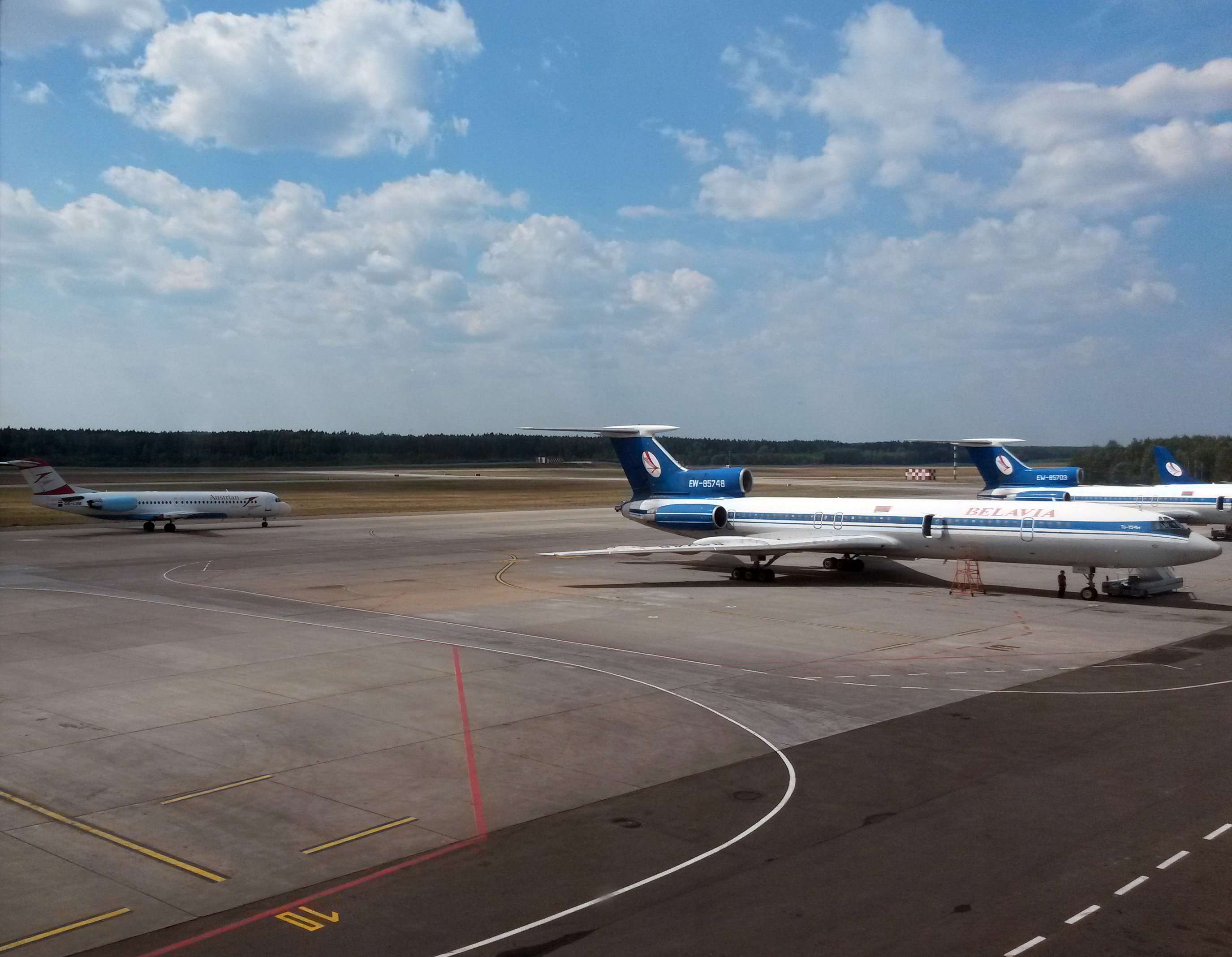 Aircraft at Minsk National Airport